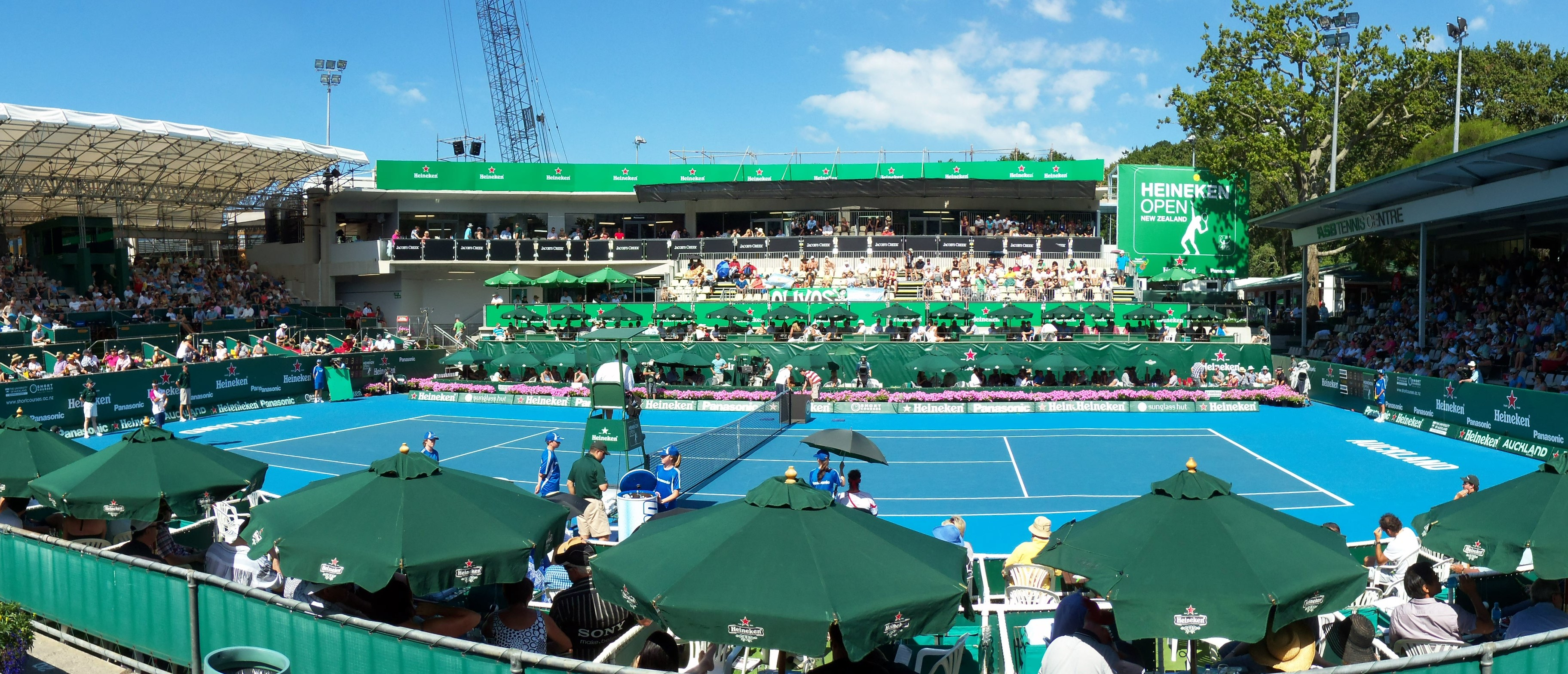 A Panorama of the ASB Tennis Centre during afternoon play at the Heineken Open